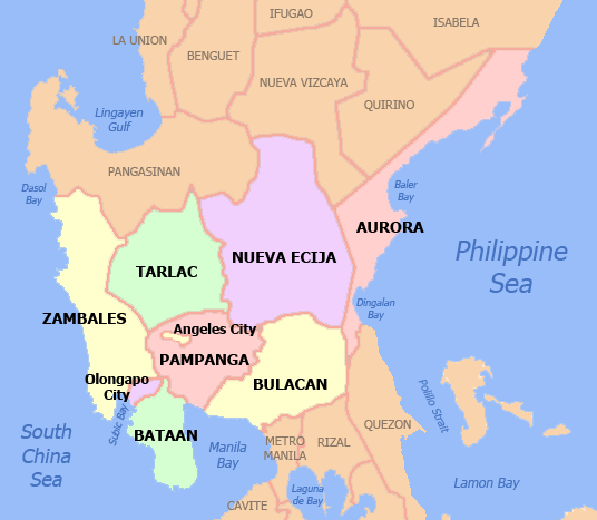 Political map of Central Luzon, Philippines. Showing Aurora, Bataan, Bulacan, Nueva Ecija, Pampanga, Tarlac, Zambales, Angeles City, and Olongapo City. Used the map template Image:BlankMap-Philippines.png by User:TheCoffee.